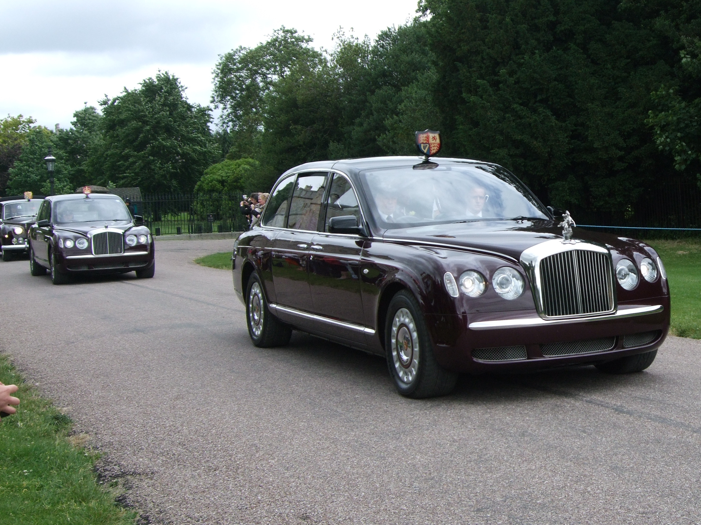 Both State Bentleys